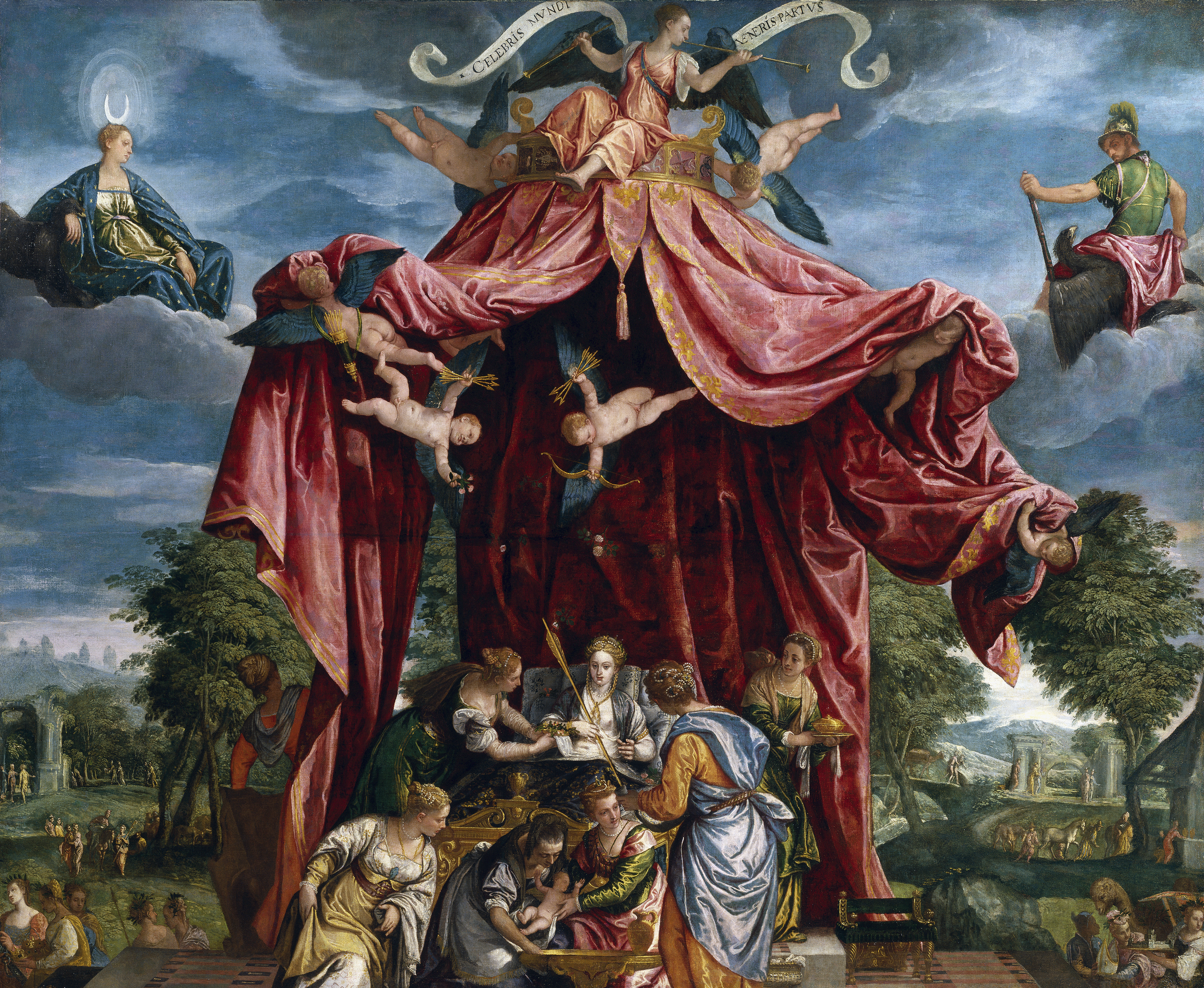 This painting describes, in an allegorical way, the birth of Ferdinand, the son of Philip II of Spain.